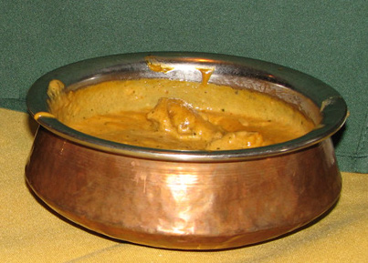 A decorative handi and karahi used to serve Indian food